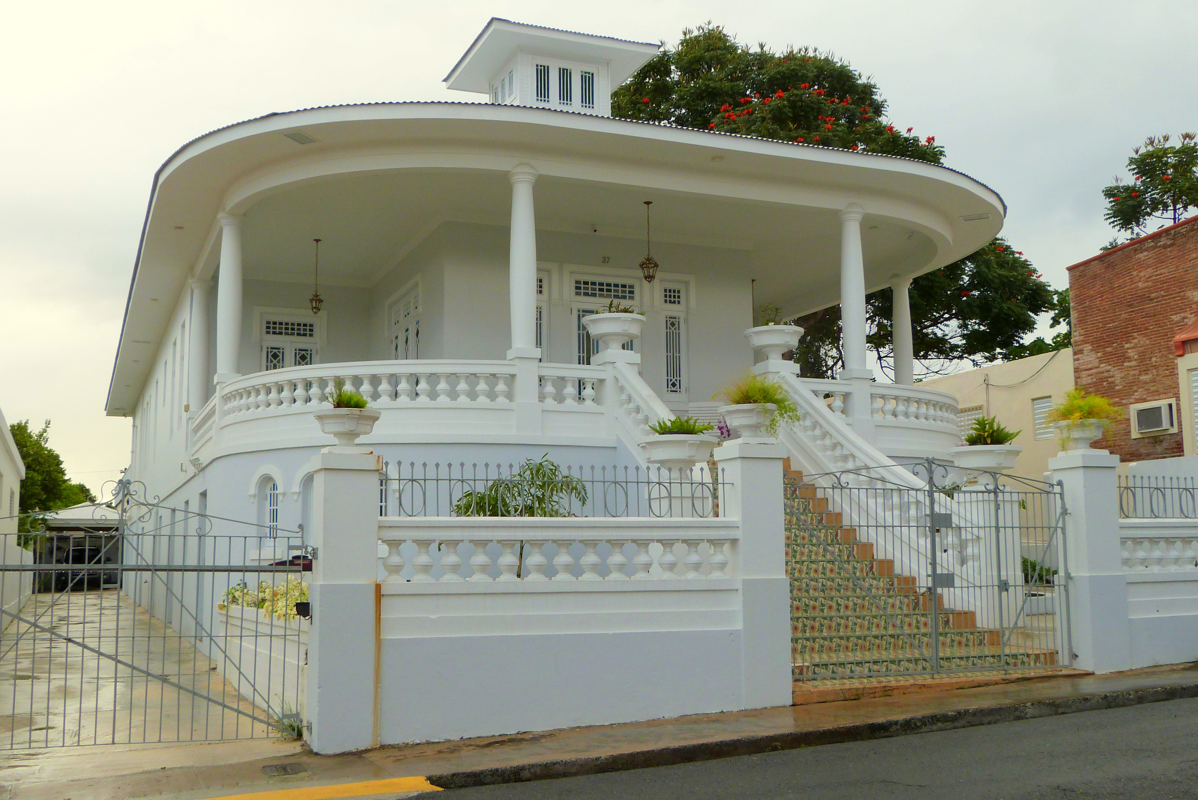 The historic Berta Sepúlveda House (built 1926–1927), located at Calle Luis Muñoz Rivera #37 in Sabana Grande, Puerto Rico, is listed on the U.S. National Register of Historic Places.